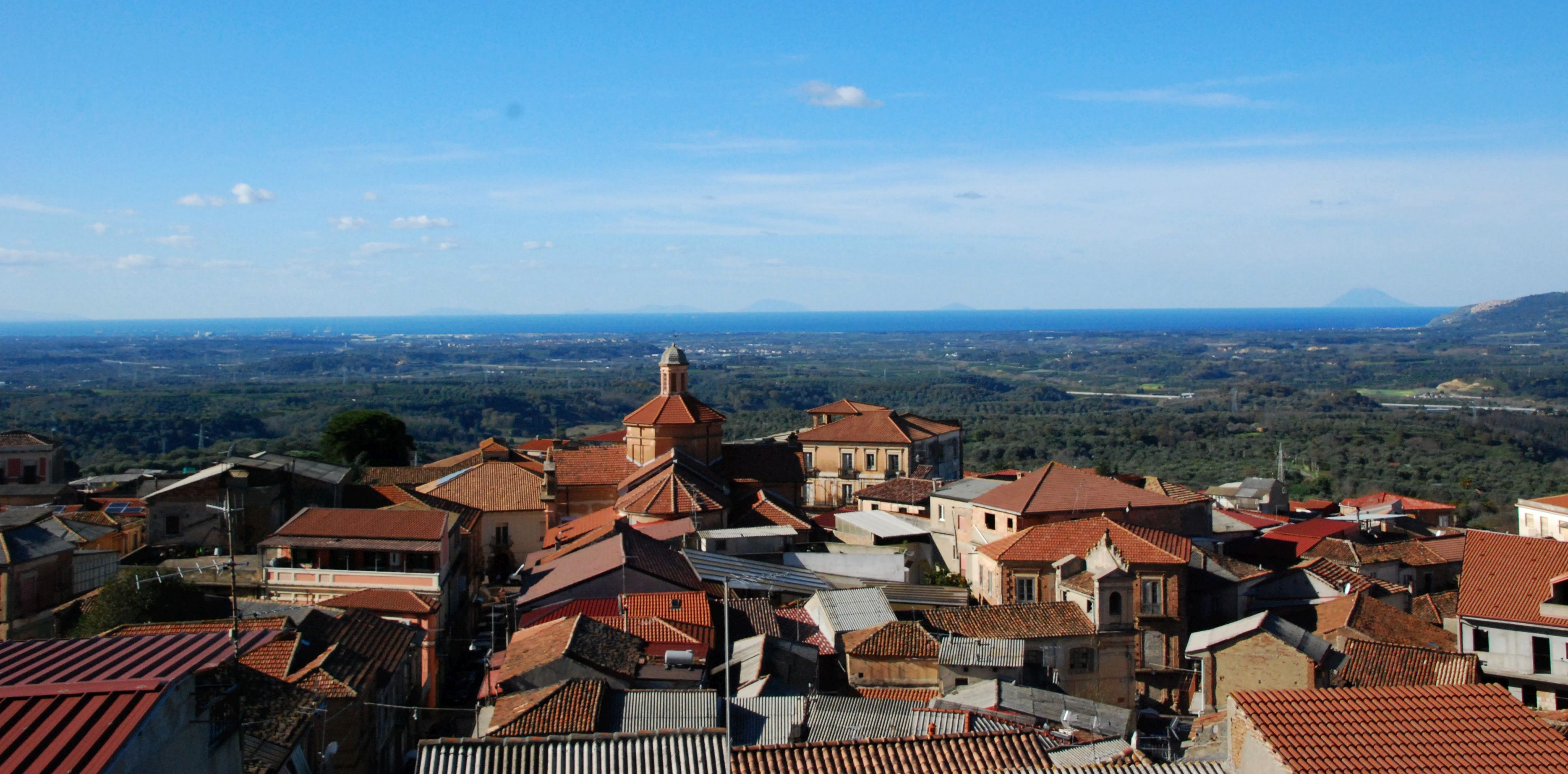 Laureana december 2014